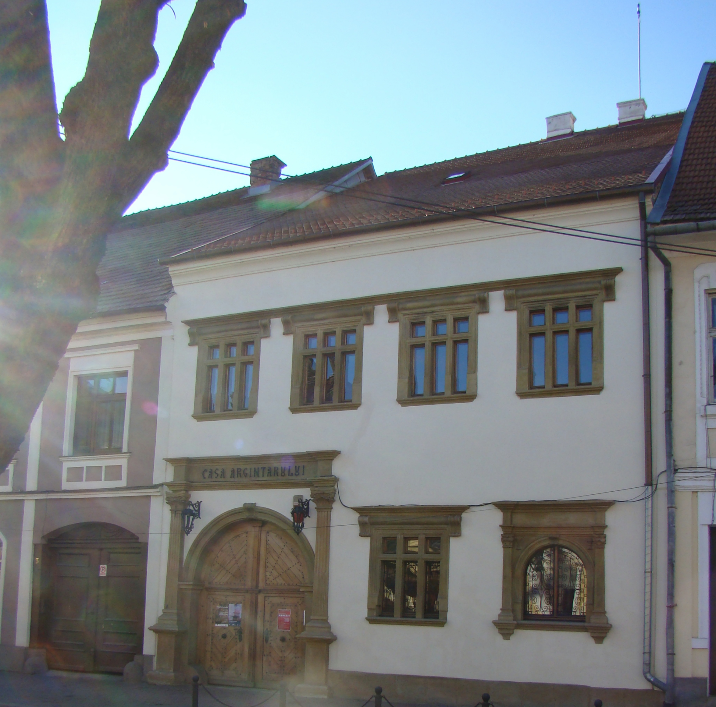 House, historic monument, in Bistriţa, Dornei street, number 5